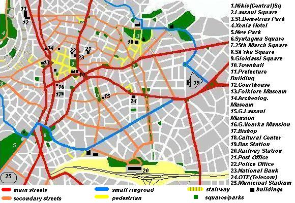 user:makedonas is the creator of this work.